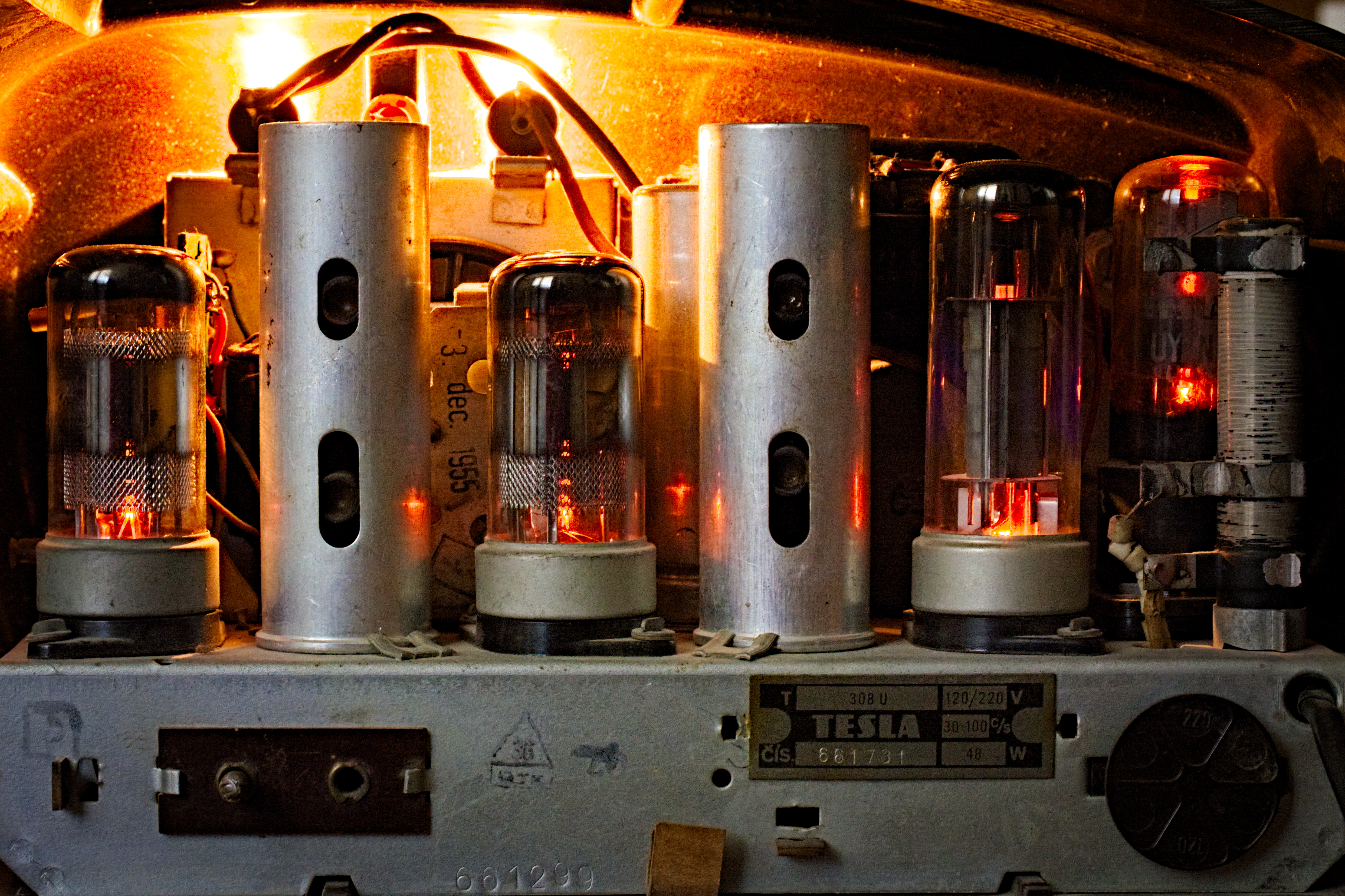 The Tesla 308U was a compact four-tube mains-powered LW/MW AM radio made in 1953-1958. This unit was made not earlier than December 1955 (stamp on one of the contour screens inside), more likely 1956.